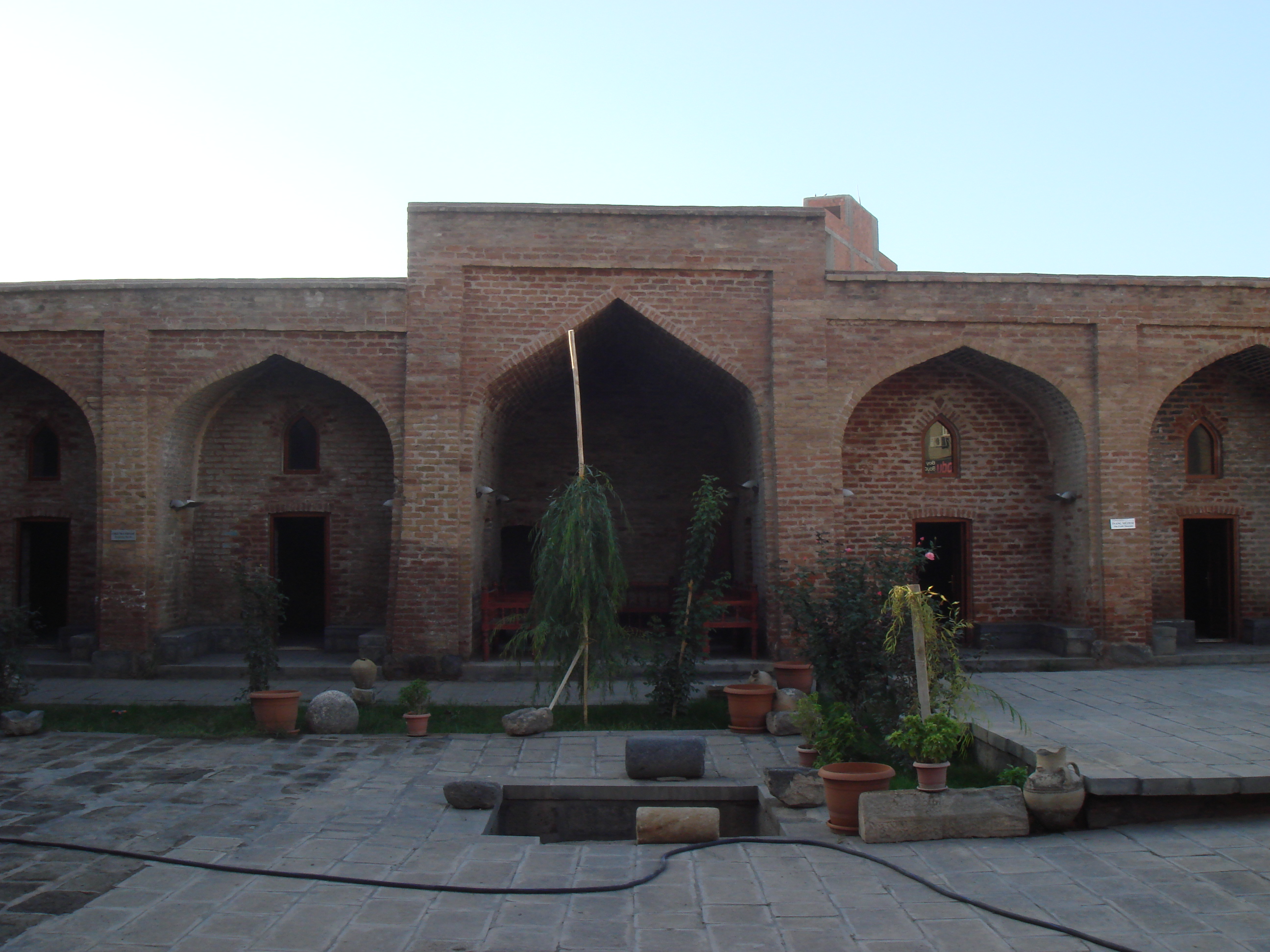 The Red Madrasa of Cizre, 2009. Kurdî: Medreseya Sor a Cizîre, 2009.